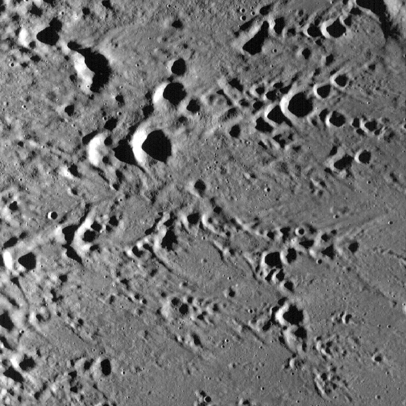 "Herringbone" pattern of small V-shaped ridges, coming from secondary impact craters. The Moon, area near eastern edge of large crater Copernicus. Image by Lunar Reconnaissance Orbiter, made with Wide Angle Camera 21 June 2010 from altitude 37.3 km on wavelength 604 nm. Sun elevation is 8.22°.Resolution is 52.48 m/pixel, width of the photo is 41.6 km.